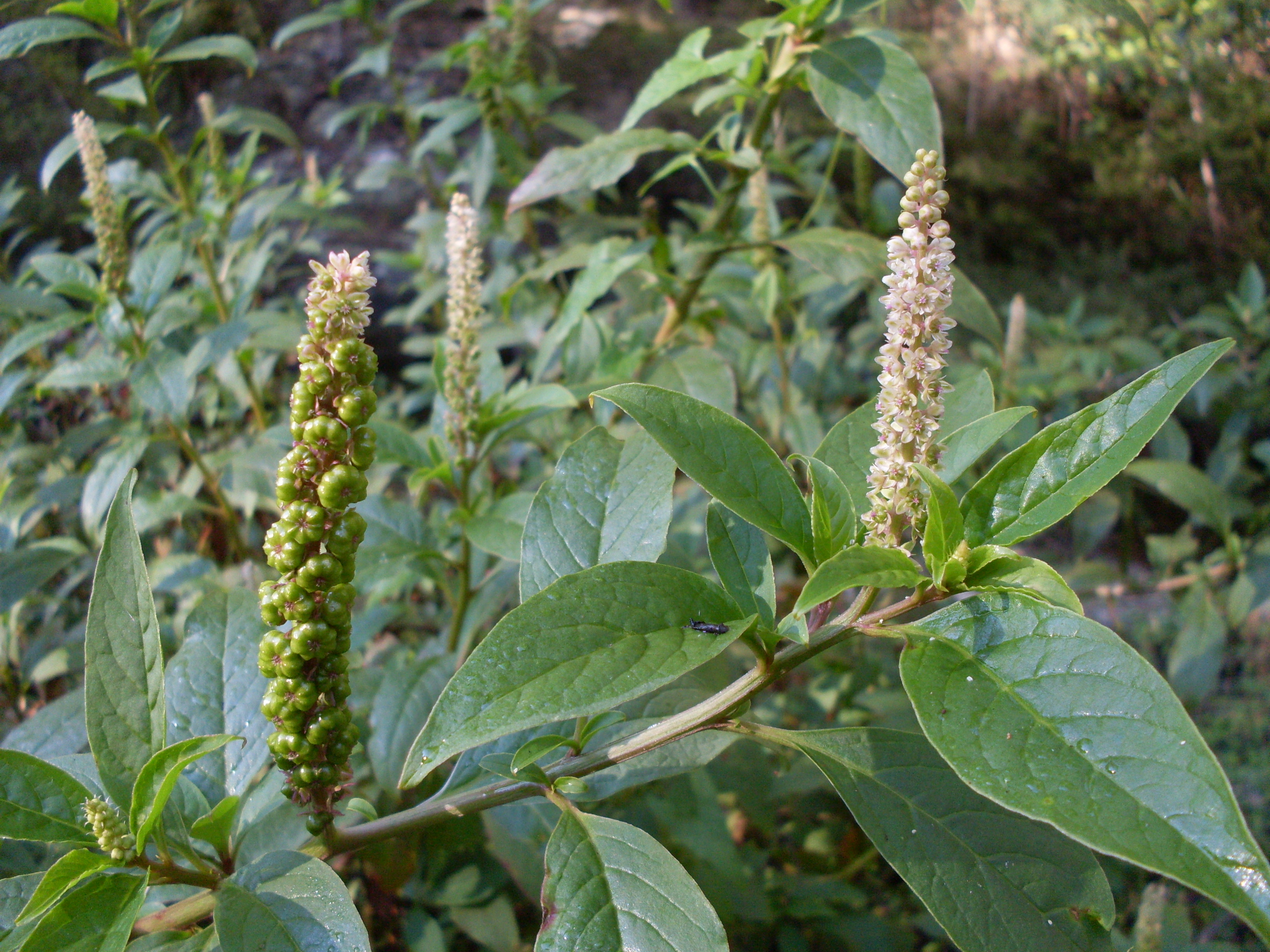 Inkweed, Phytolacca octandra. A weed of moist areas. Bimberamala Creek, Morton National Park, NSW Australia, May 2009. Thanks to Macleay Grass Man for the identification.